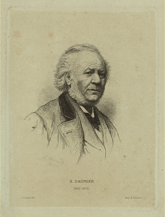 French political satirist and artist Honore Daumier